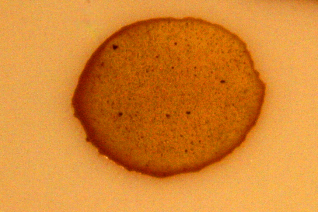 Macro of a Coffee ring